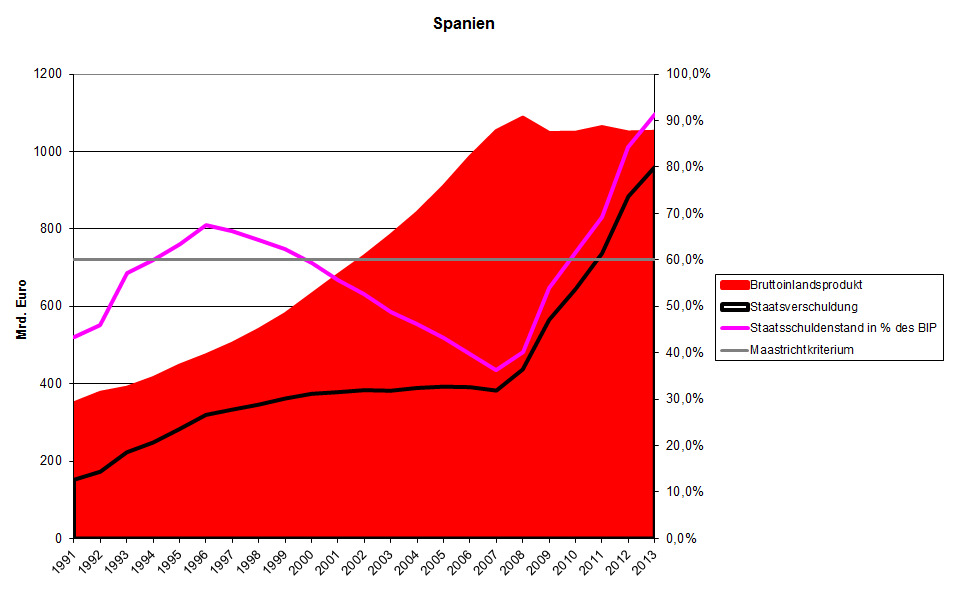 Spain: GDP, public debt, public debt-GDP ratio, Graph based on data from ameco data bank of European commission